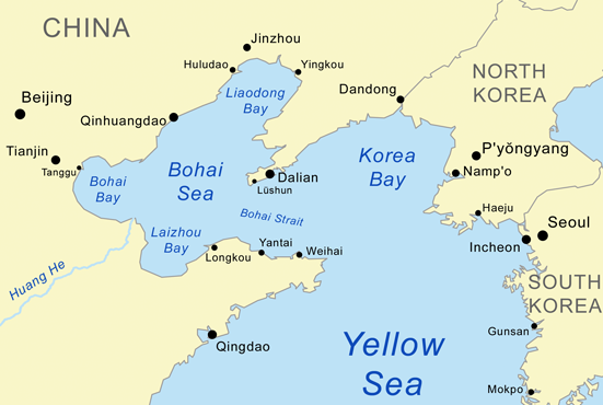 A cropped version of a Wikimedia file Bohaiseamap2.png posted by Kmunser. Northern China